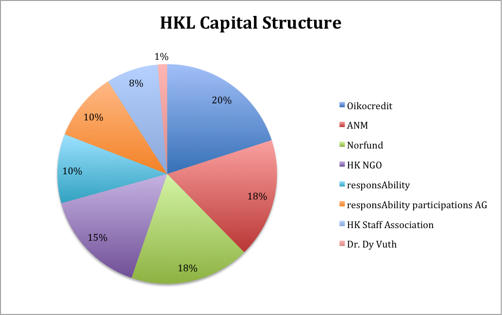 author: Lucie BOYER source: Data from HKL Annual 2013 Report URL